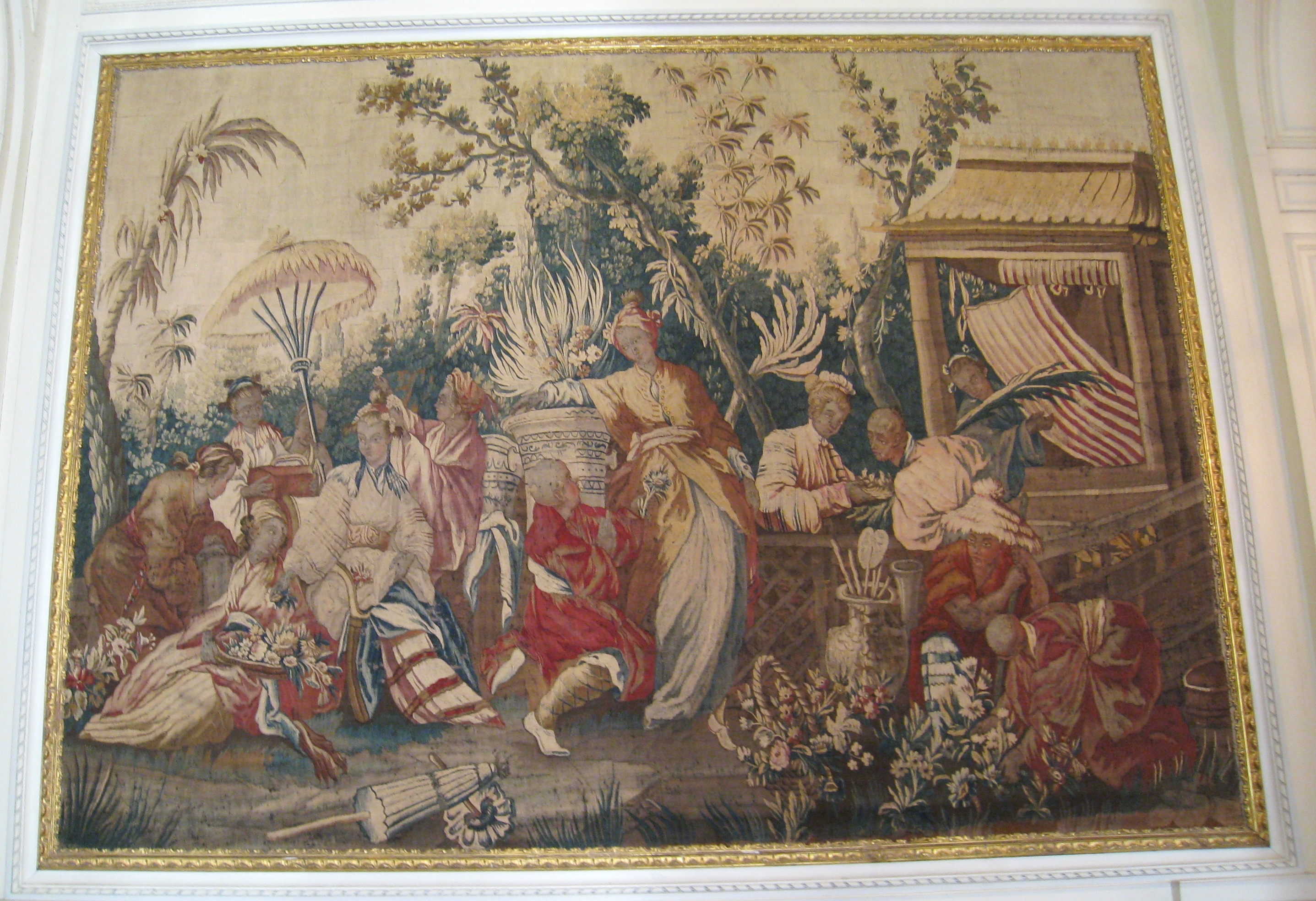 Musée Nissim de Camondo, Paris, France - Chancellerie tapestry by Gobelins (circa 1680). The original work is old enough so that copyright (if any) has long since expired. The museum imposed no restrictions on photography (except prohibiting flash) in writing and when I explicitly asked; thus the original image appears free of copyright restrictions.